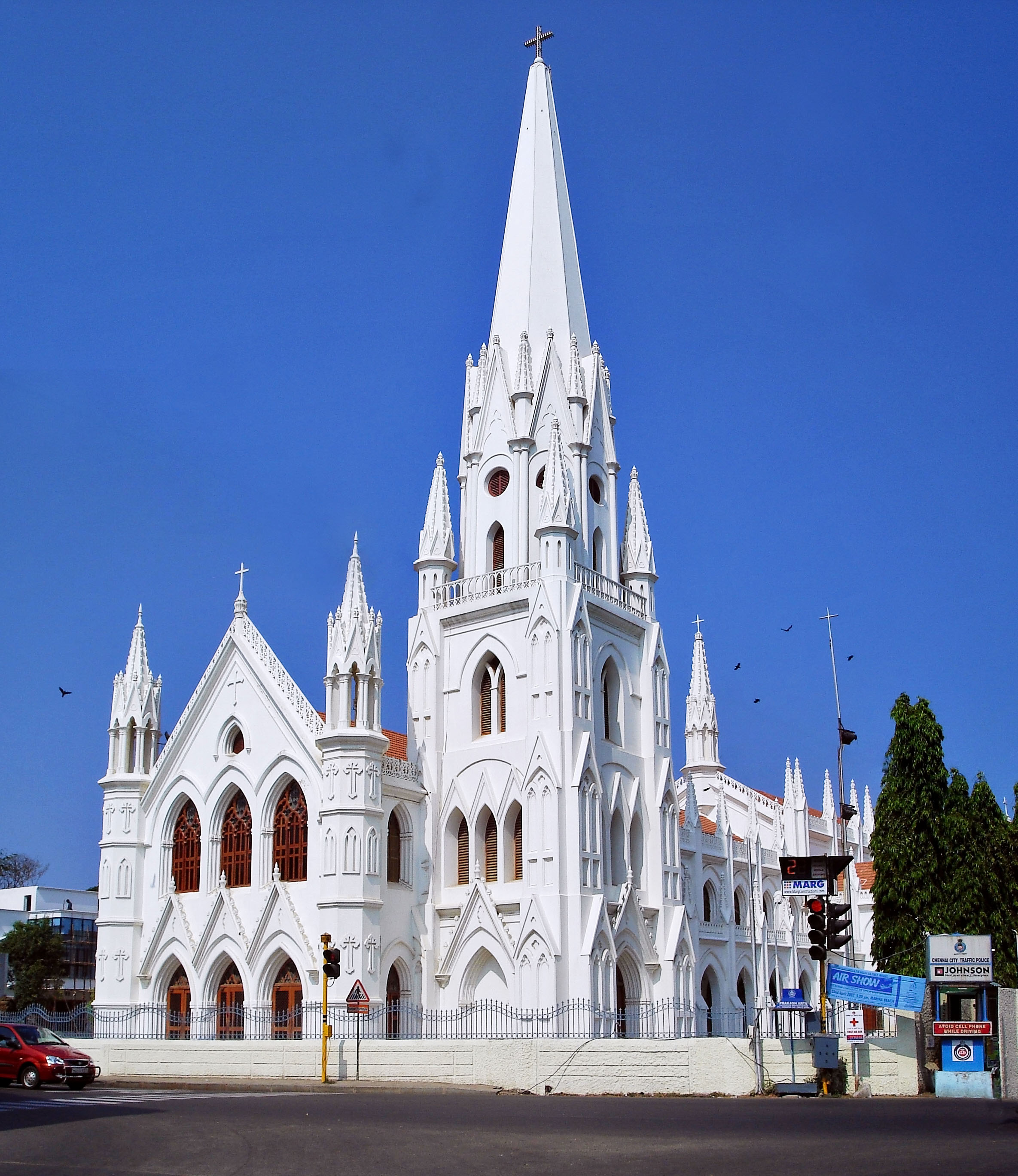 Front view of the Santhome Basilica in Chennai